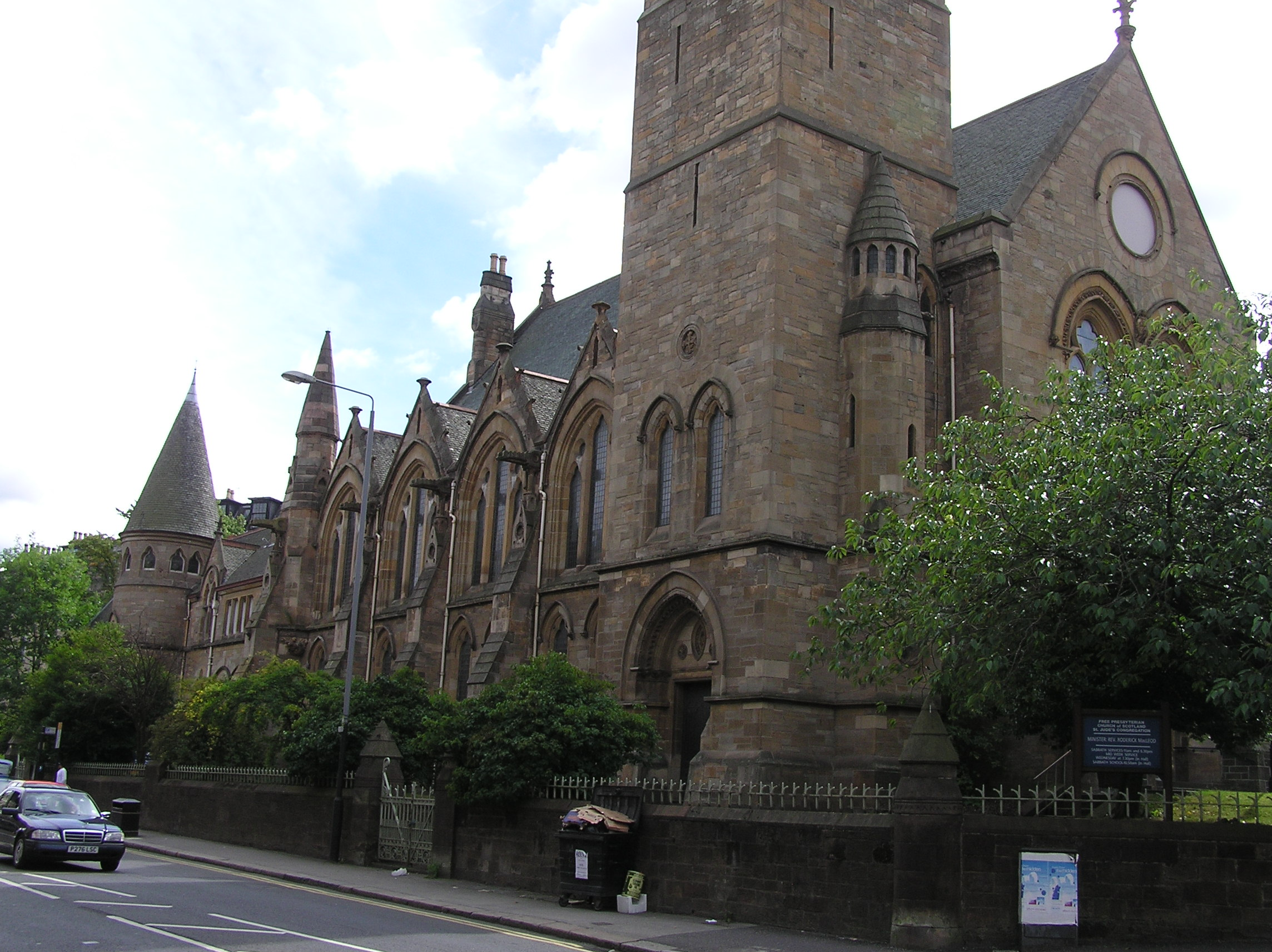 St. Judes church in Woodlands Road, Glasgow, Scotland. A major church in the Free Presbyterian Church of Scotland.